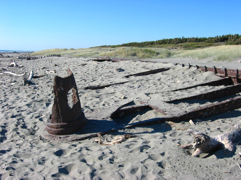 Bones of the 'Hydrabad'